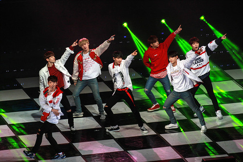 VICTON at MBN HERO CONCERT January 30, 2017